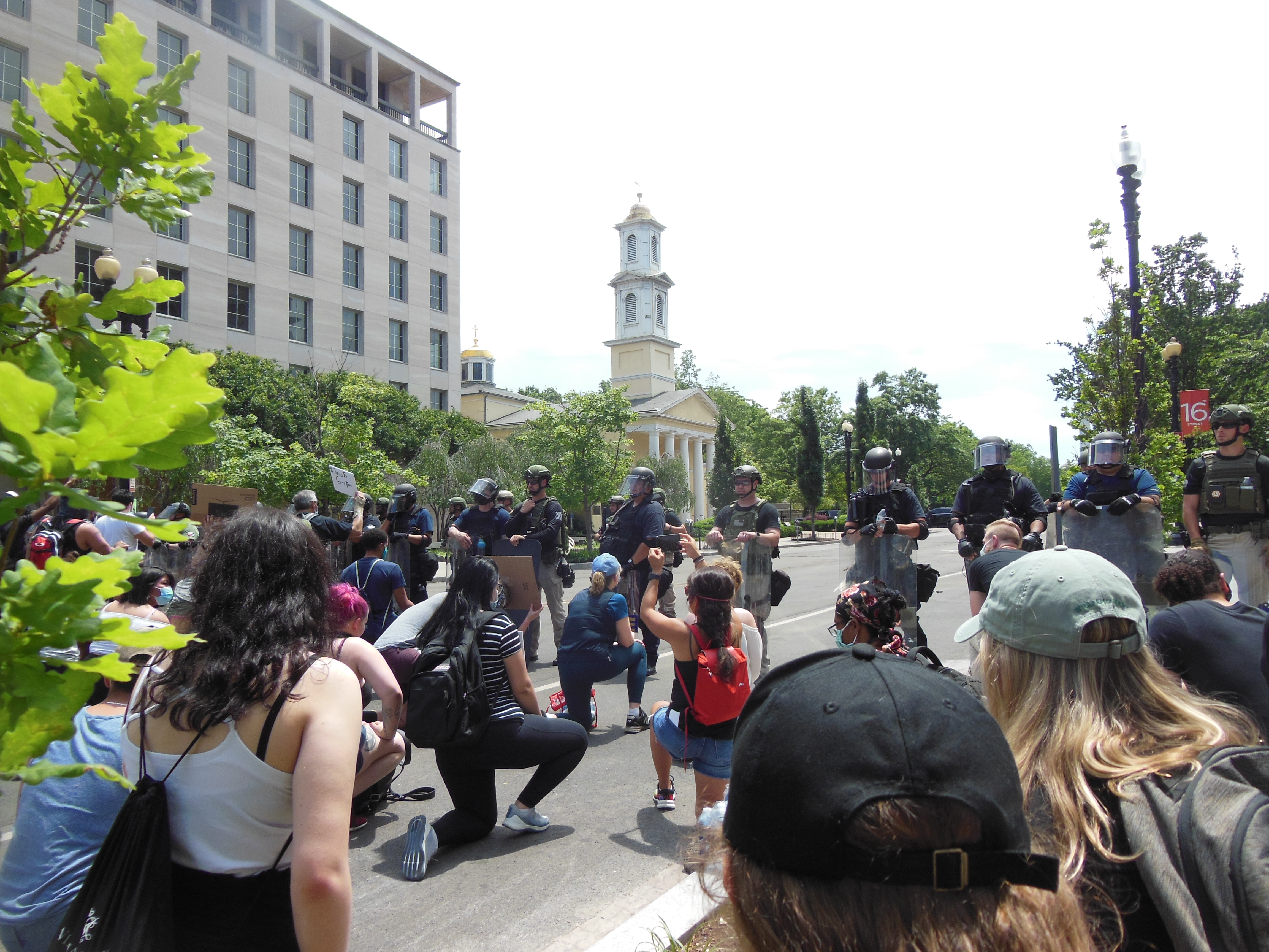 George Floyd protests in Washington, D.C.